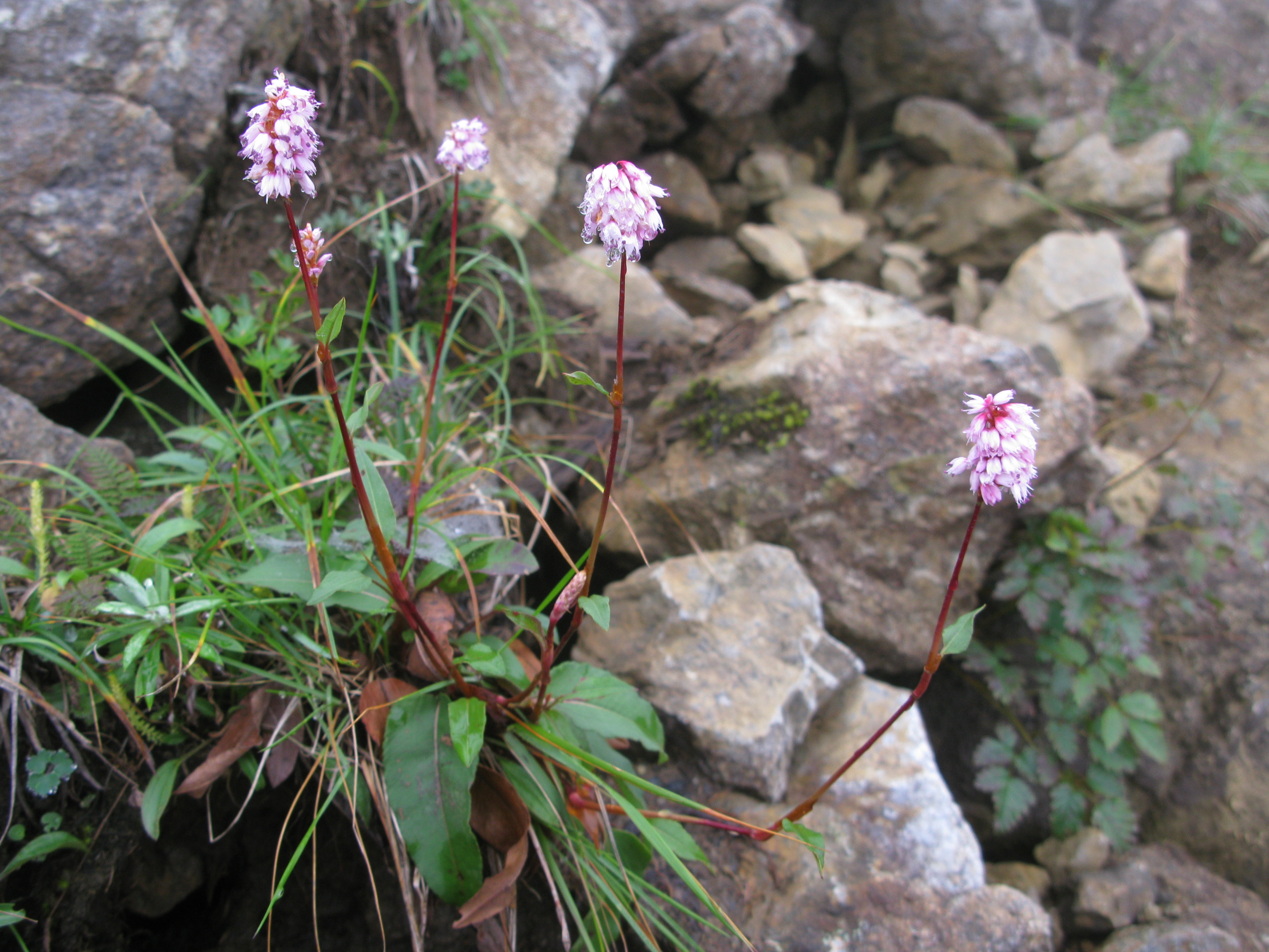 Bistorta hayachinensis, Mount Hayachine, Iwate pref., Japan